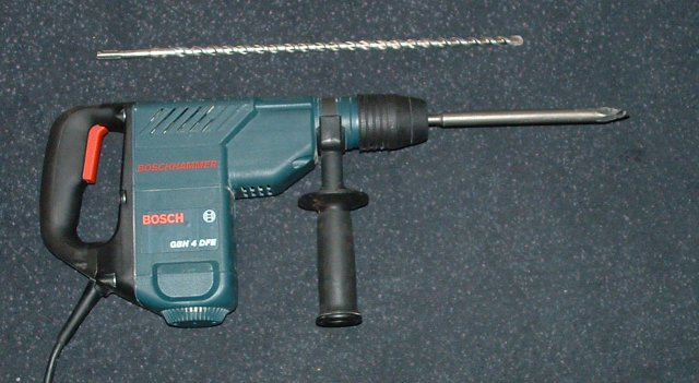 Bosch GBH 4 DFE rotary hammer